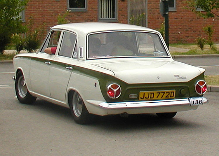 Ford Cortina Mark 1 from 1966. Seen at a Classics Rally at Slimbridge, Gloucestershire, England, in June 2003.